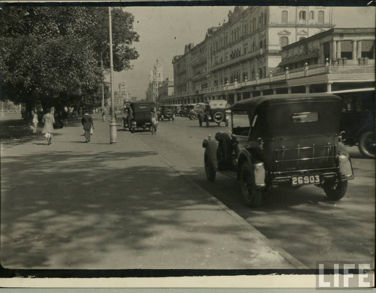 Street in front of the Grand Hotel, Calcutta